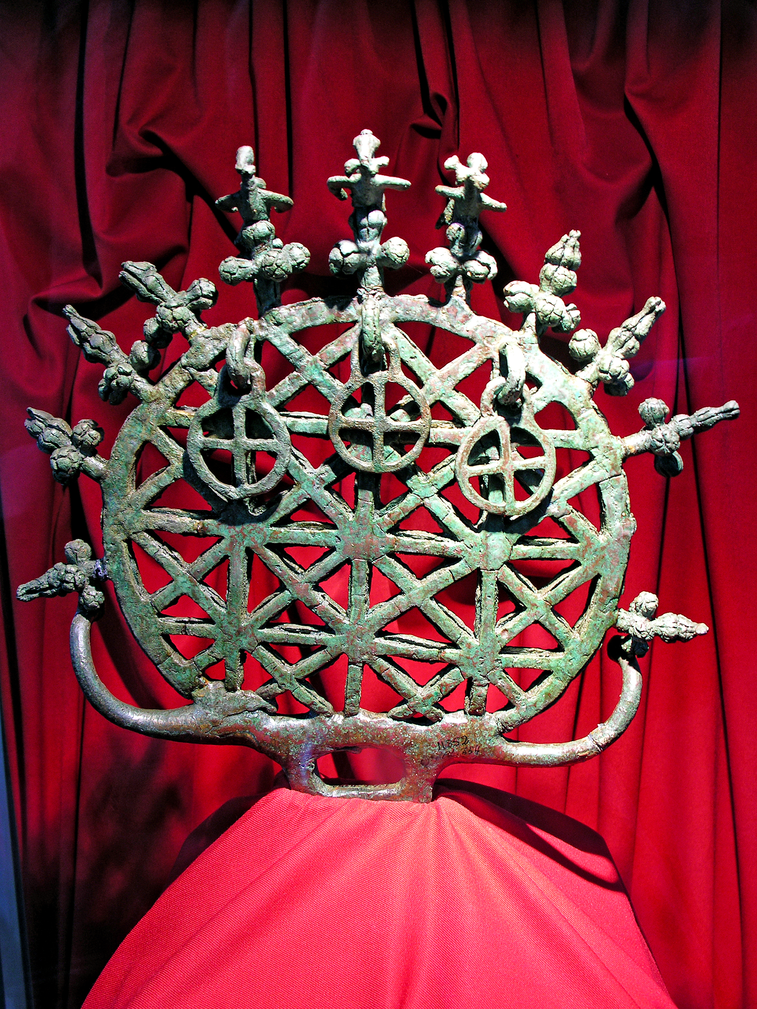 Ceremonial standards are Second Half of Third Millennium BC. Stag and bull statuettes are often found among ritual objects of Early Bronze Age and are thought to represent the gods that are worshipped at the time. The statuettes were paraded as potent emblems at religious ceremonies.